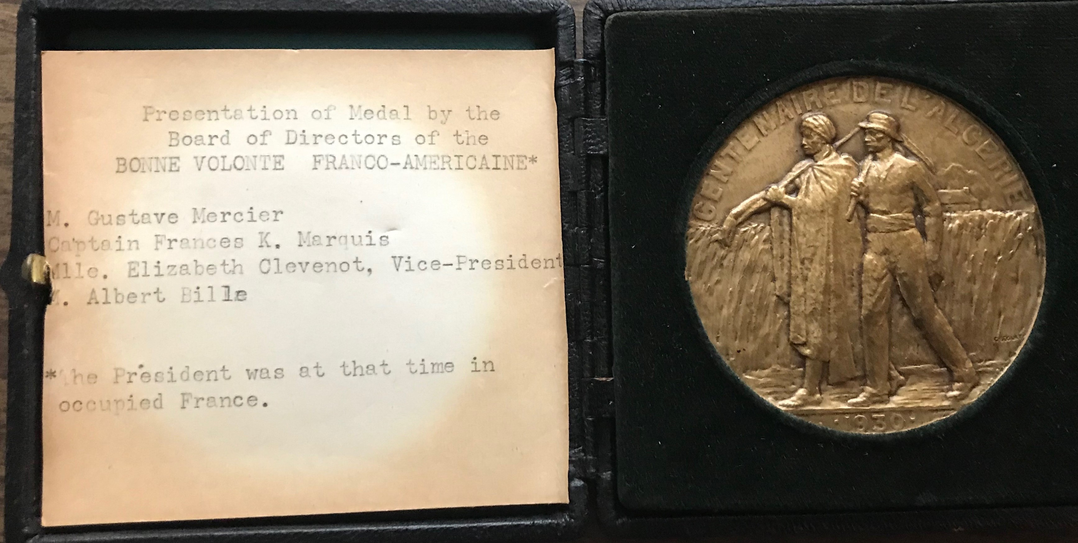 Bonne Volonte Franco-Americaine Medal Awarded to Capt. Frances K. Marquis, commander of the first American women's expeditionary force, on the eve of her return to the United States, honoring her contributions to French-American friendship